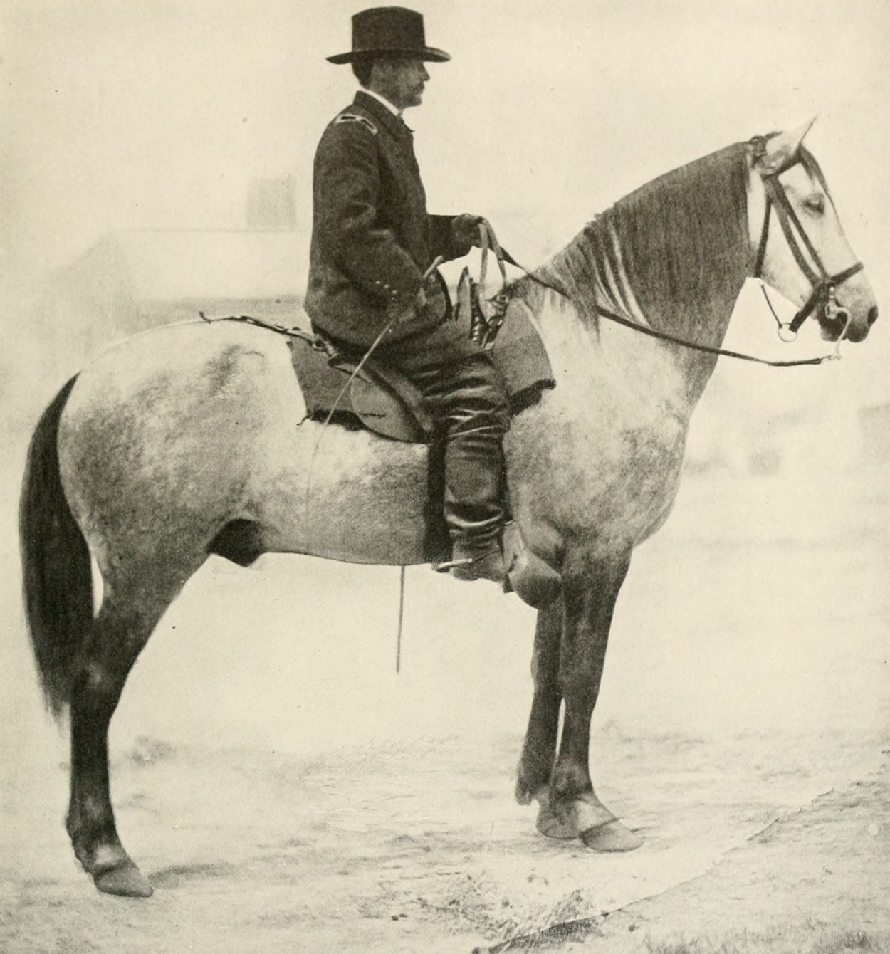 Photo of Union Cavalry General Alfred Pleasonton taken in Falmouth, Virginia, 1864.